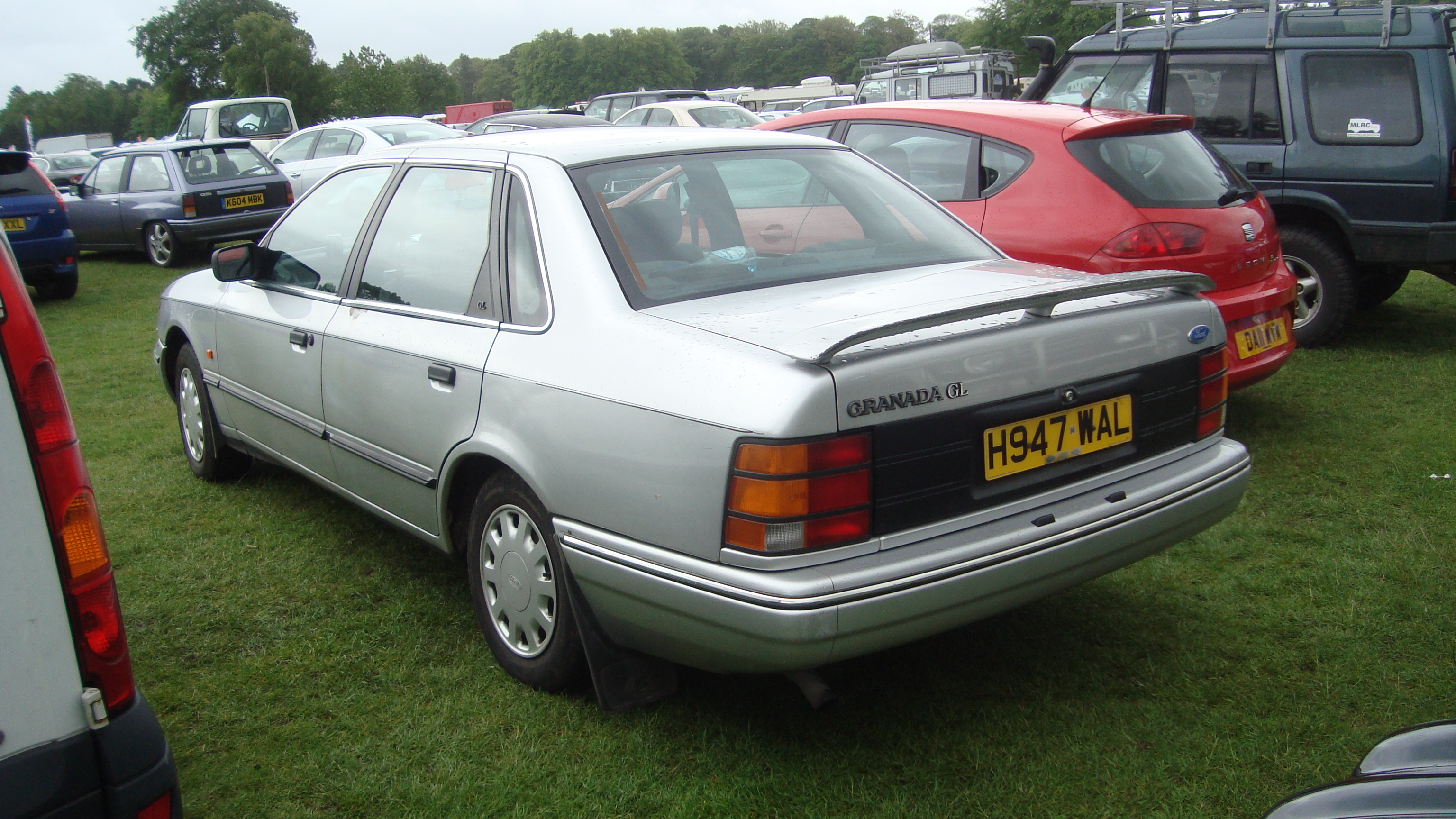 Wish I'd got a picture of the Nova now...